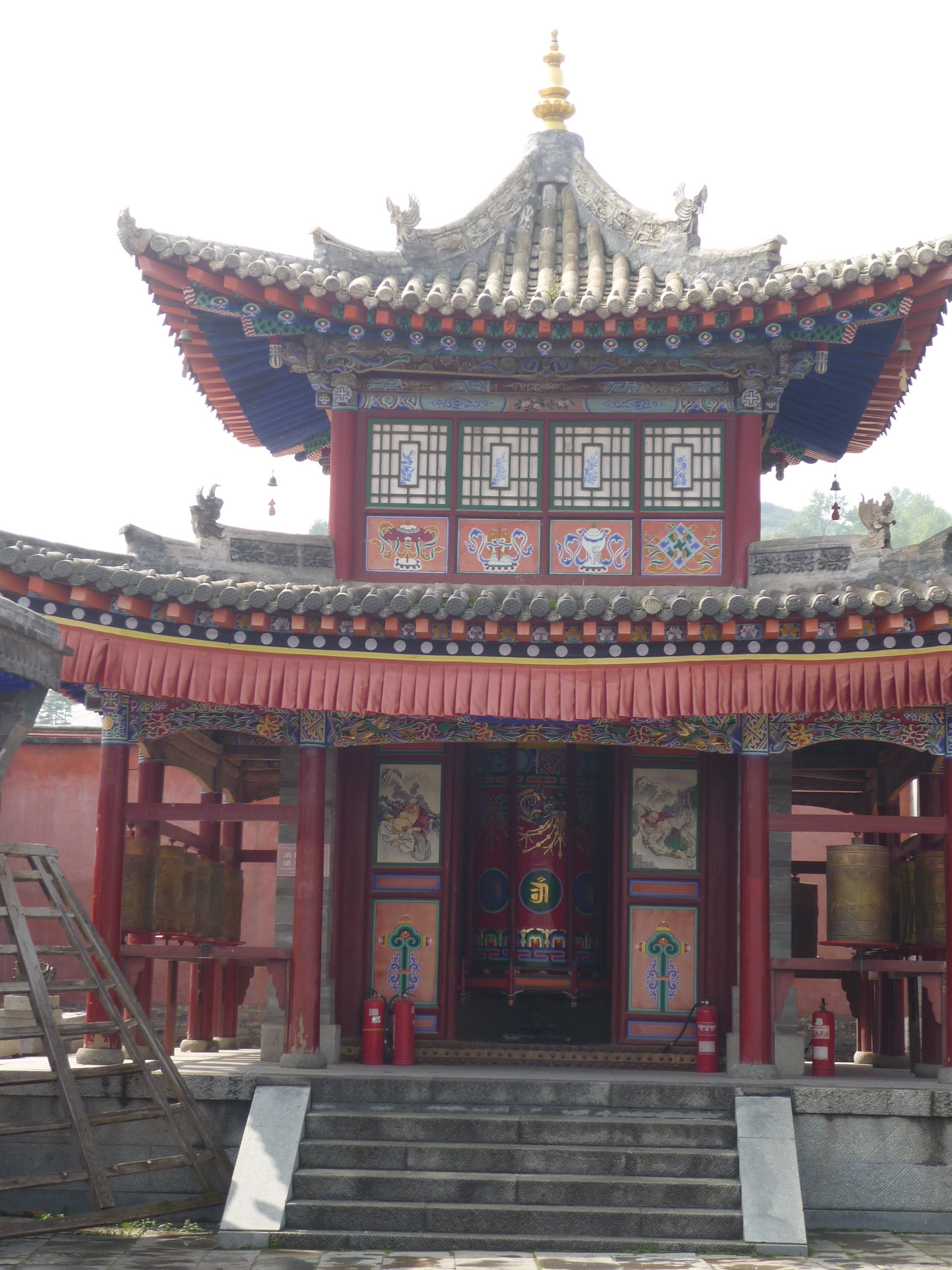 Kumbum (Kloster der Hunderttausend Bilder des Buddha Maitreya oder塔尔寺Tǎ’ěrsì, Ta'er-Kloster) in der chinesischen Provinz Qinghai, ist ein tibetisch-buddhistisches Kloster aus der Zeit der Ming-Dynastie (1560).